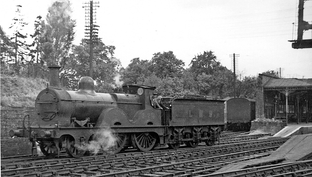 An Old Stager at Cheltenham Lansdown Station. View northward, towards Birmingham etc.; ex-Midland Birmingham - Bristol main line. This locomotive was an isolated survivor of the 2-4-0 express engines that were prominent on the Midland Railway services at the turn of the 20th century. Here No. 20216 remained, on the not very onerous work of Station Pilot at Cheltenham Lansdown. To the right out of frame, were the ex-Great Western lines to Cheltenham Malvern Road (and St James), Stratford-on-Avon and Birmingham Snow Hill